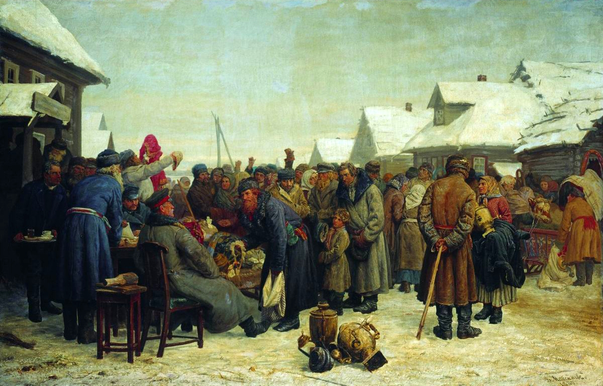 The auction for arrears